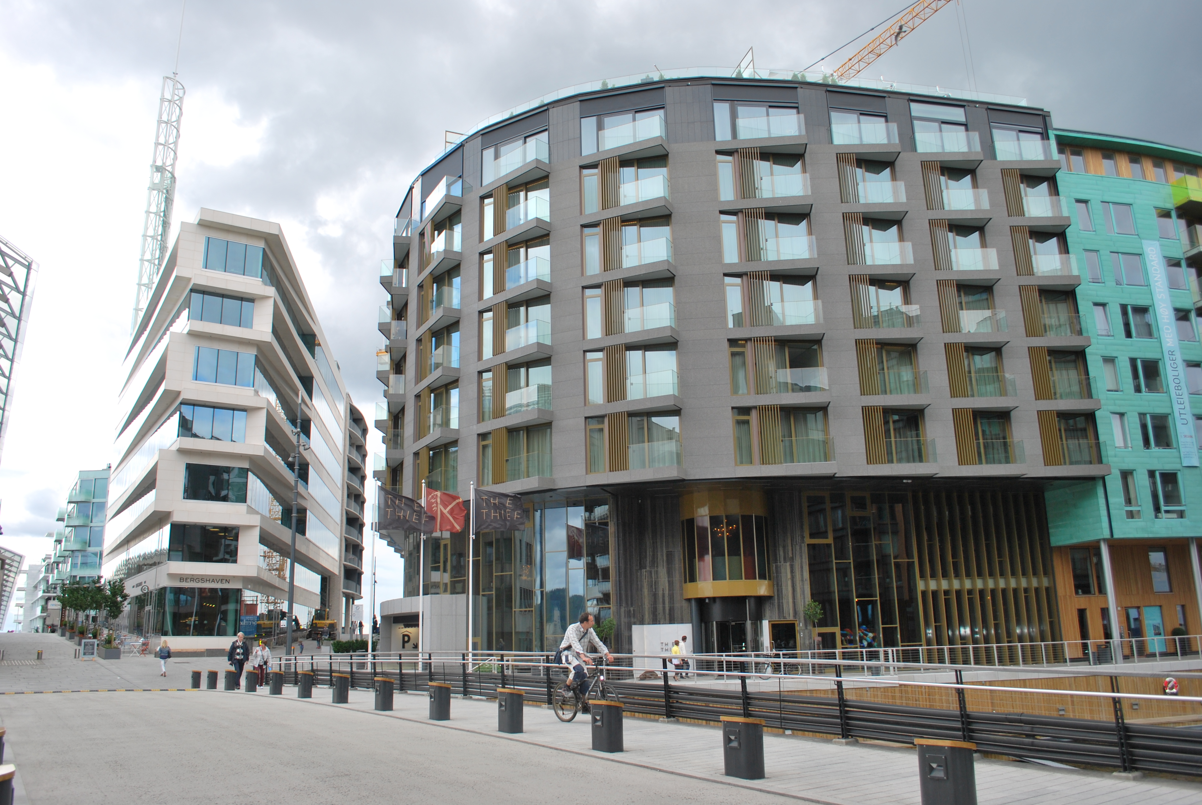 Tjuvholmen The Thief Hotel. Streets Tjuvholmen alle and kobbernaglen to the left